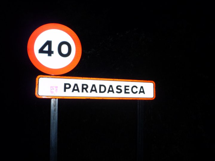 cartel